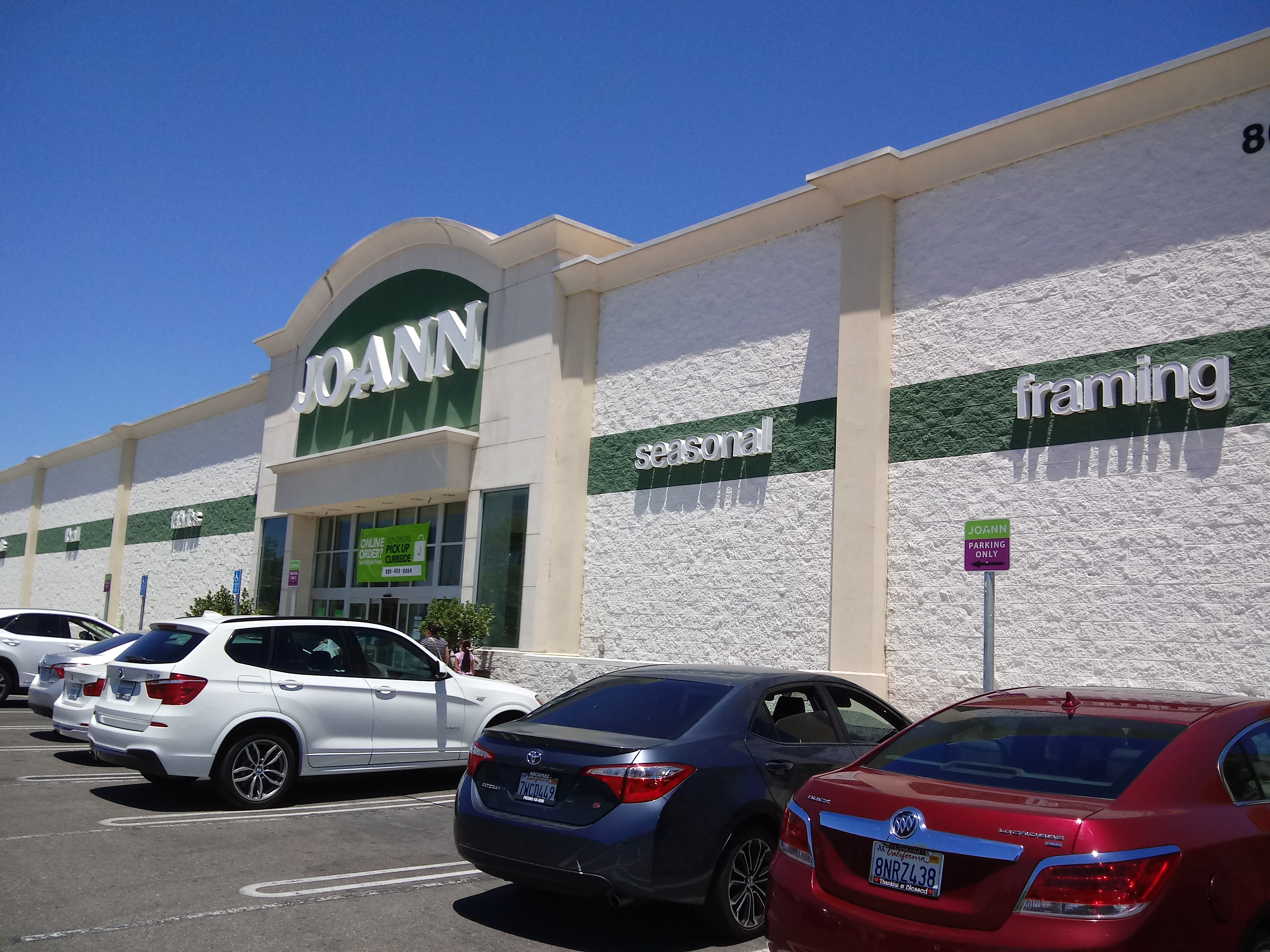 Customers of a Jo-Ann Store (Fresno) picking up their orders by parking at its curb